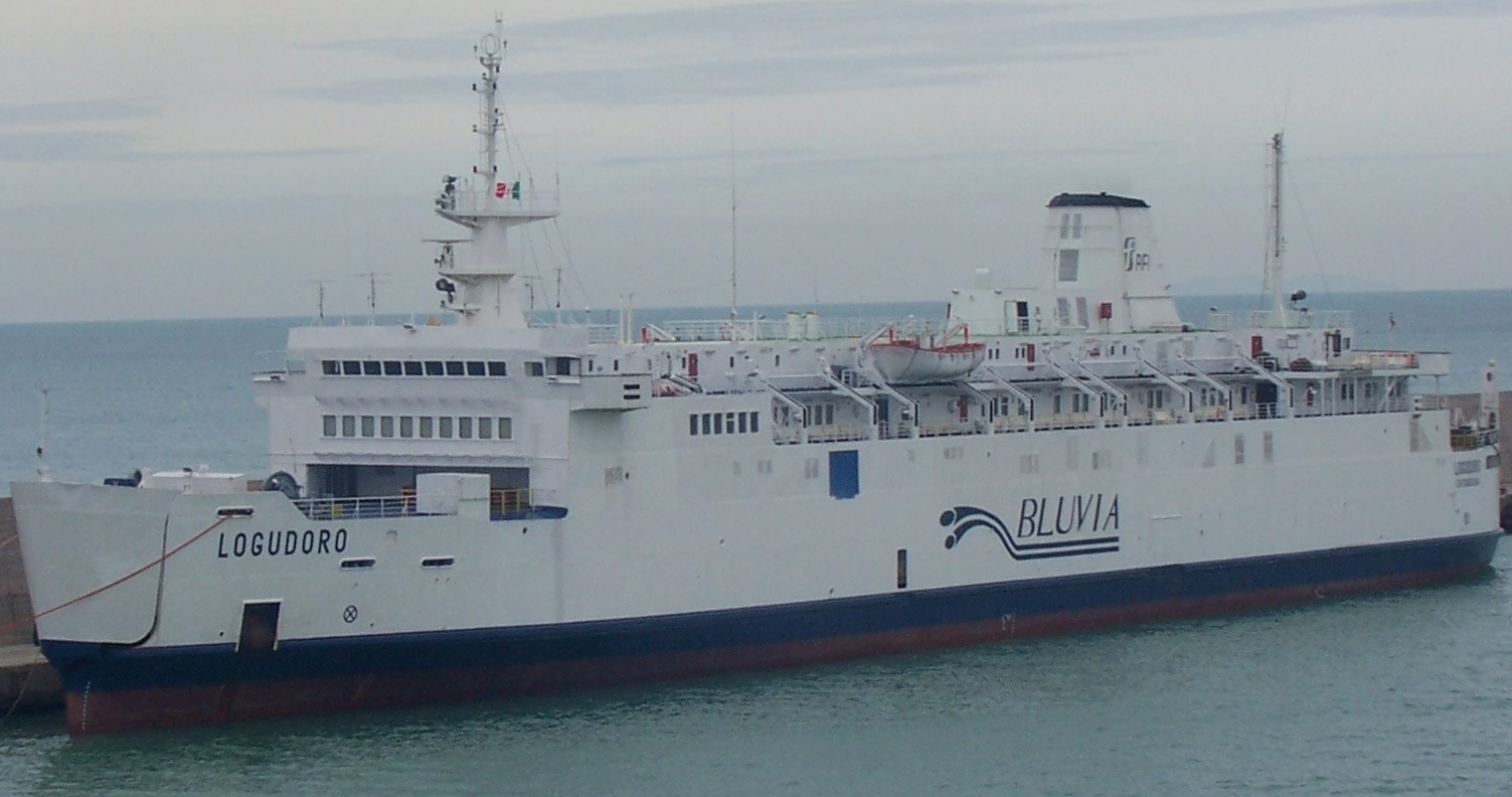 Logudoro, a rail ferry of the RFI in Civitavecchia harbour